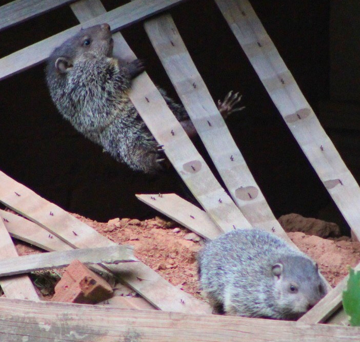 Two baby groundhogs, May 17 2020